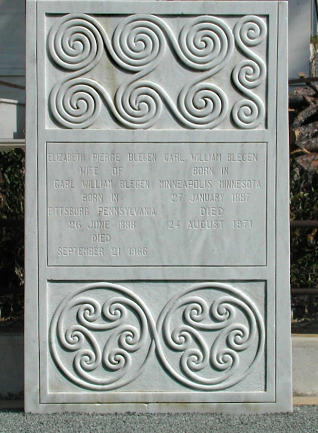 The grave of american archaeologist Carl Blegen (27 January 1887 – 24 August 1971) in the First Cemetery of Athens, Greece. "Elizabeth Pierce Blegen wife of Carl William Blegen born in Pittsburg Pennsylvania 26 June 1888. Died September 21 1966 Carl William Blegen born in Minneapolis Minnesota 27 January 1887. Died 24 August 1971"